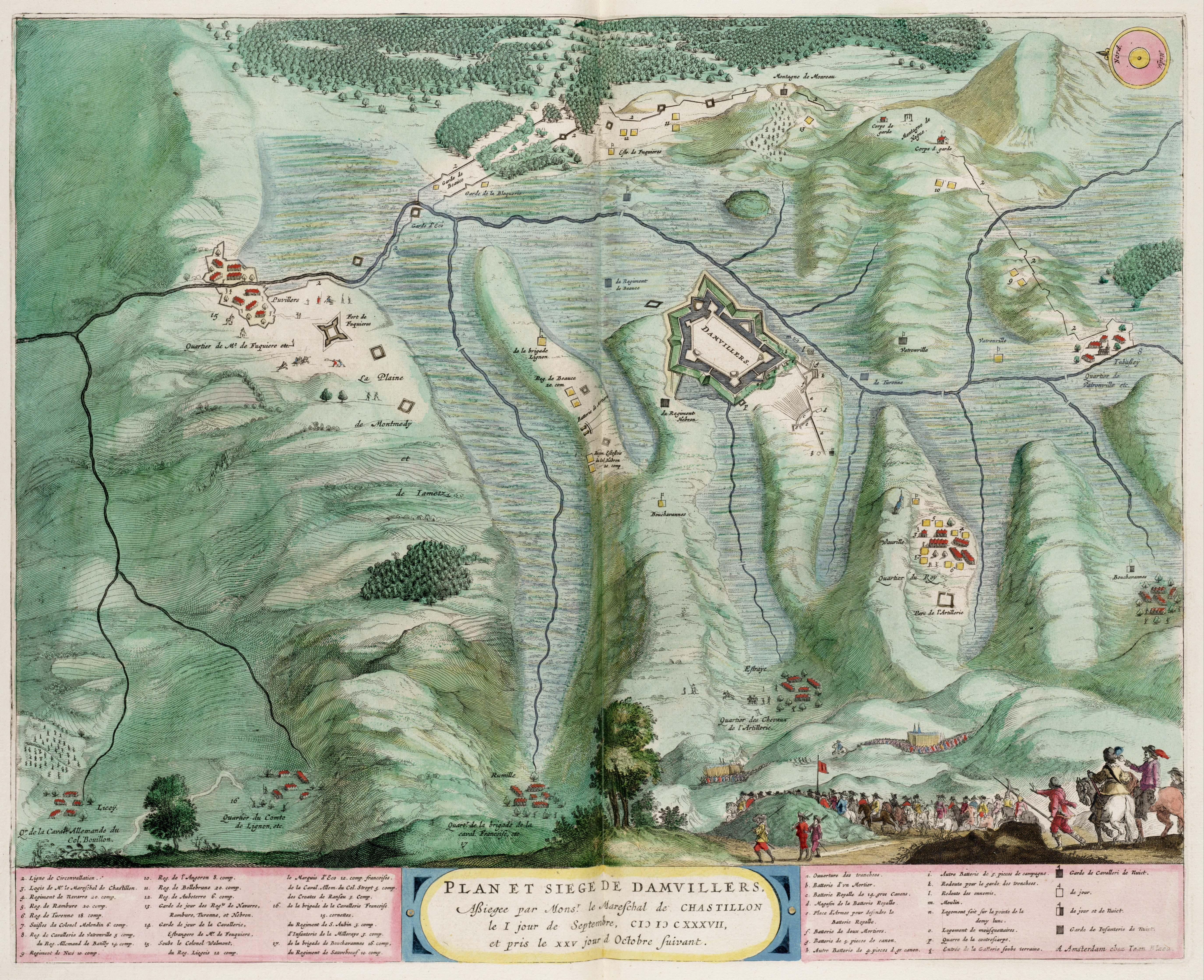 Siege of Damvillers in 1637.